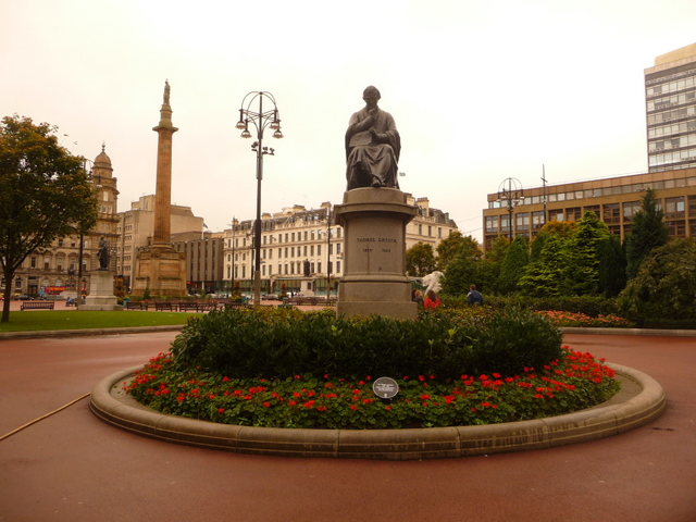 Glasgow: Thomas Graham statue, George Square One of several statues in George Square representing eminent Scots – this one being of scientist Thomas Graham (1805-69).